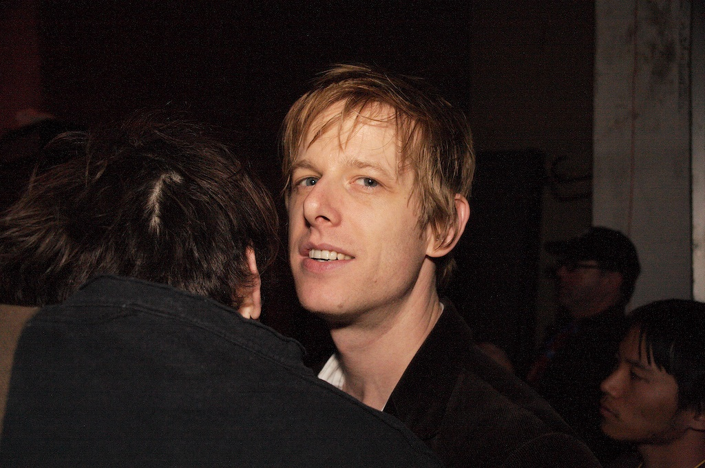 watching s-k at the film party